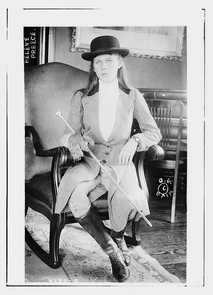 Bain News Service, publisher. Helen Preece circa 1913 – [between 1910 and 1915] 1 negative : glass ; 5 x 7 in. or smaller. Notes: Title from unverified data provided by the Bain News Service on the negatives or caption cards. Photo shows Helen Preece, young English equestrian. (Source: Flickr Commons project, 2008) Forms part of: George Grantham Bain Collection (Library of Congress). Format: Glass negatives. Repository: Library of Congress, Prints and Photographs Division, Washington, D.C. 20540 USA, General information about the Bain Collection is available at Persistent URL: Call Number: LC-B2- 2329-9